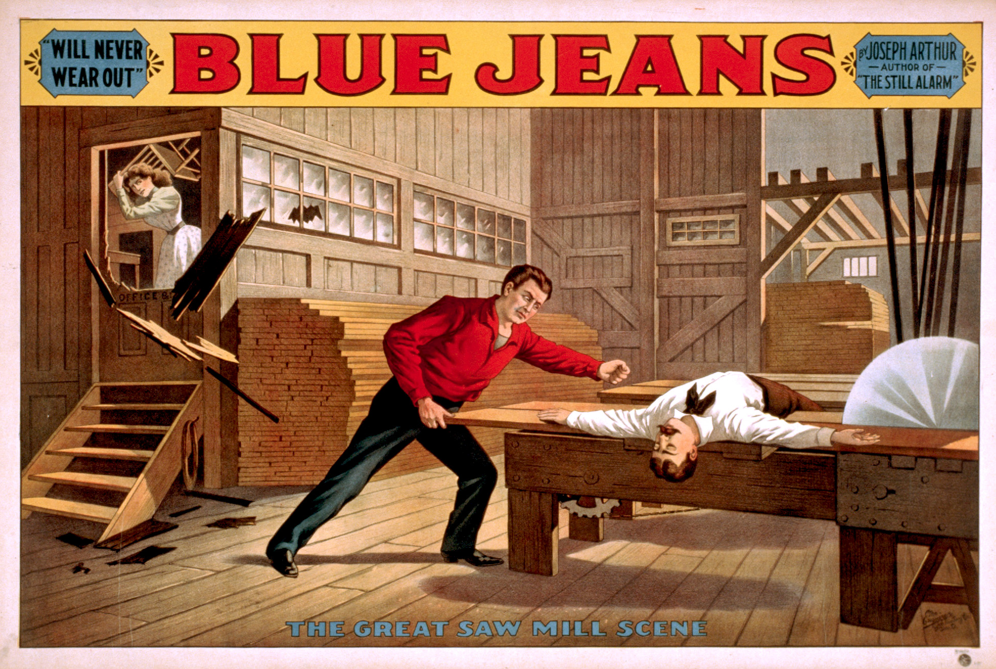 Poster for popular 1890s play "Blue Jeans" by Joseph Arthur, depicting the famed saw mill scene.